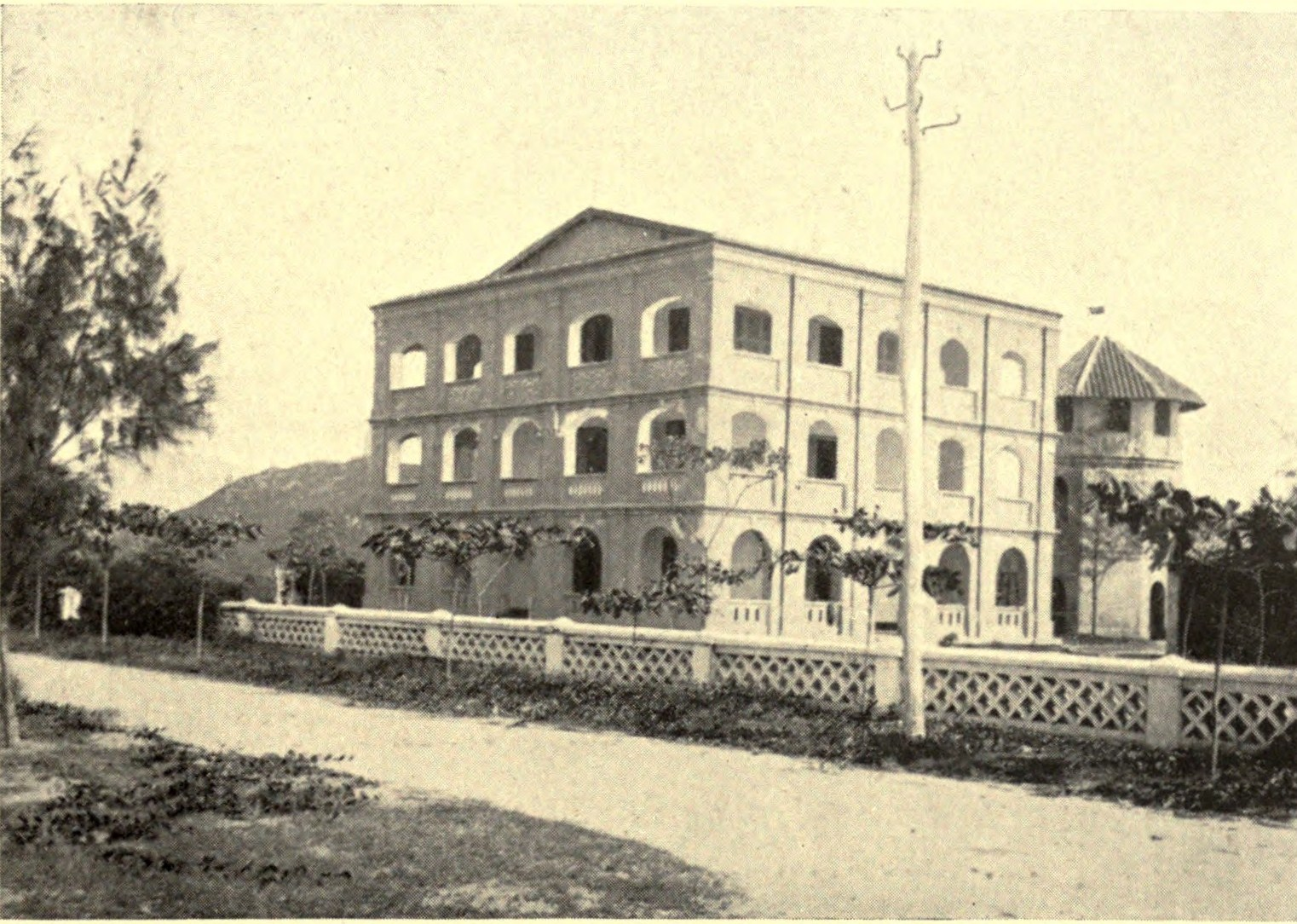 Dr. Yersin's house in Nhatrang in about 1900s. Today it has been demolished and replaced by 478th Guest House of Ministry of Public Security of Vietnam.